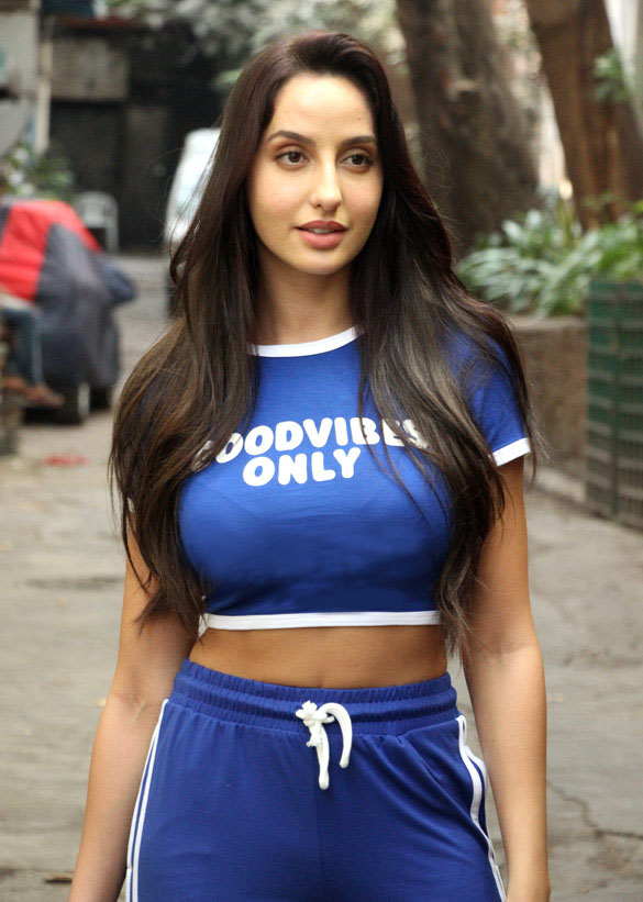 Nora Fatehi snapped at Krome studio in Bandra